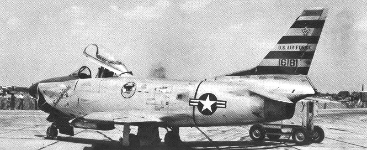 325th Fighter-Interceptor Squadron North American F-86D-35-NA Sabre 51-6181, Truax Field, Wisconsin, 1955